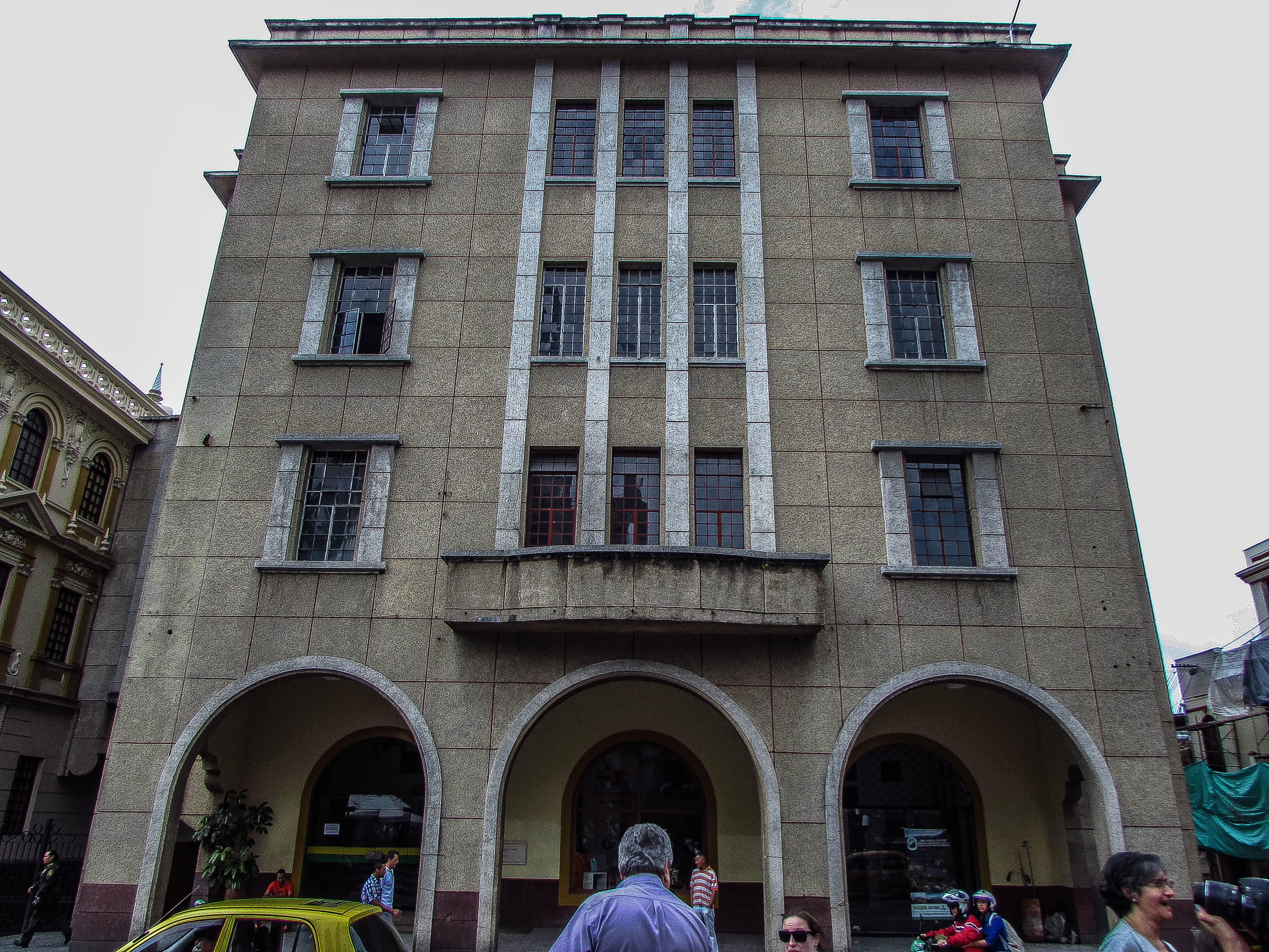 centro histórico de Manizales